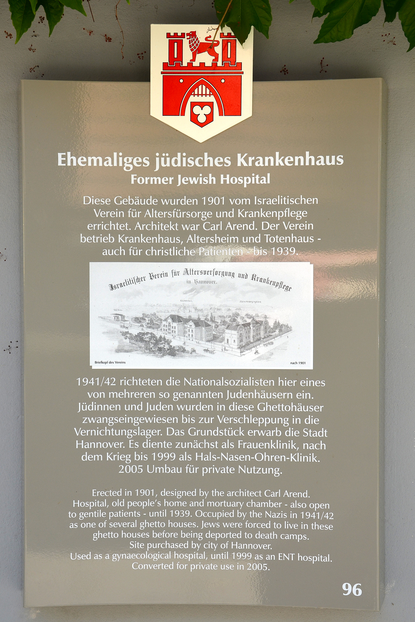 „Former jewish hospital / Erected in 1901, designed by the architect Carl Arend. Hospital, old people`s home and mortuary chamber - also open to gentile patients - until 1939. Occupied by the Nazis in 1941/42 as one of several ghetto houses. Jews were forced to live in these ghetto houses before beeing deported to death camps. Site purchased by city of Hanover. Used as gynaecological hospital, until 1999 as ENT hospital. Converted for private use in 2005.“